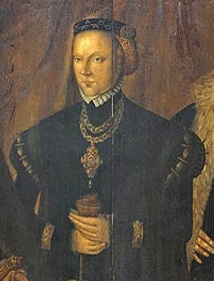 Agnes of Hesse